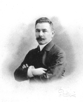 Photograph of the Austrian writer and translator Siegfried Trebitsch (1868–1956).